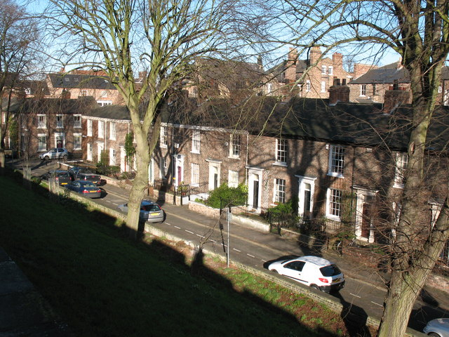 Lower Priory Street There are several streets of modest Victorian terraced houses within the city walls in the Bishophill district. Lower Priory Street is typical, and has some nice brick houses with attractive wooden doorcases. Photo taken from the city wall.